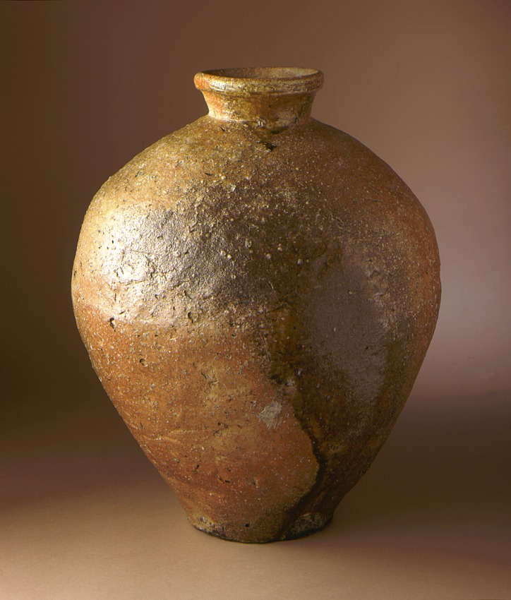 Japan, Muromachi period, early 15th century Furnishings; Serviceware Shigaraki ware; stoneware with natural brown and yellow glaze Los Angeles County Fund (63.16.1) Japanese Art Currently on public view: Pavilion for Japanese Art, floor 3